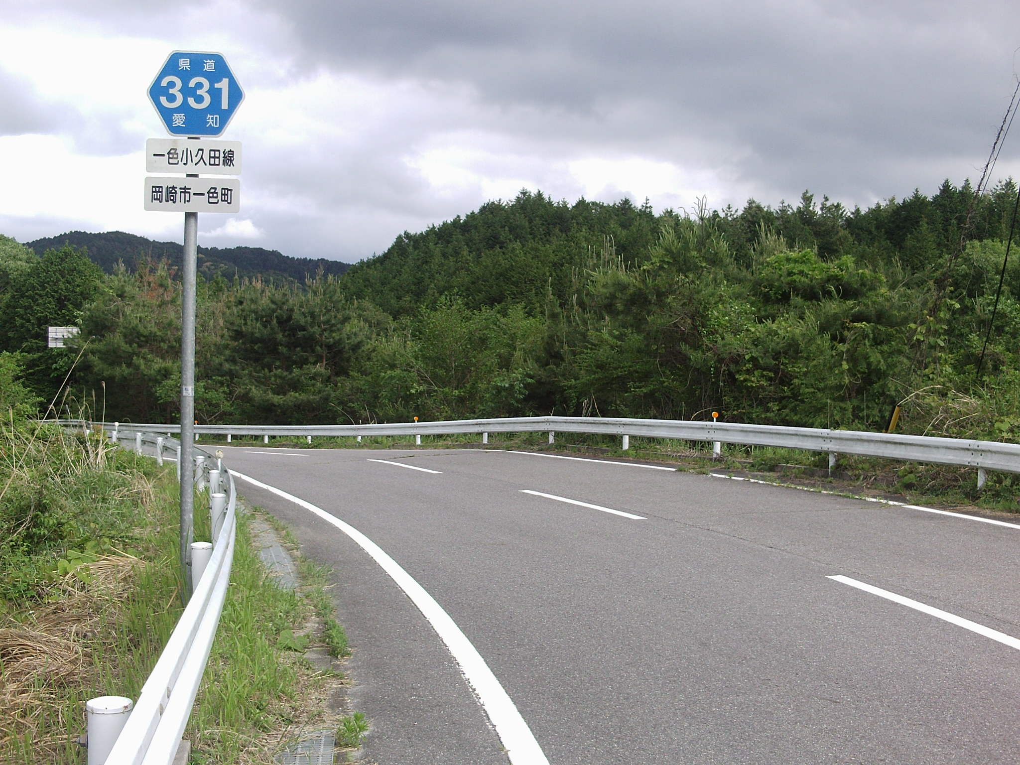 Aichi prefectural road No.331 in Isshikicho, Okazaki, Aichi.